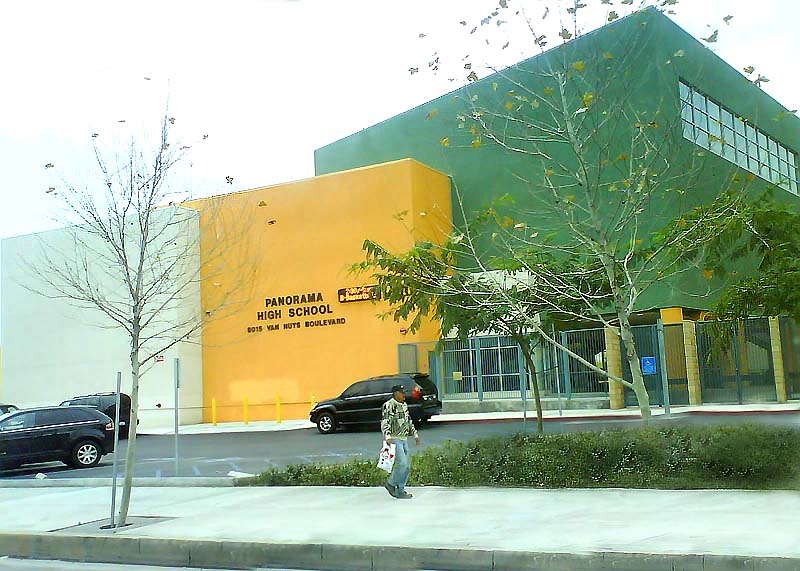 A picture of the front entrance of Panorama High School in front of "The Plant" (an out-door mall) in Panorama City, located in the San Fernando Valley region of Los Angeles.